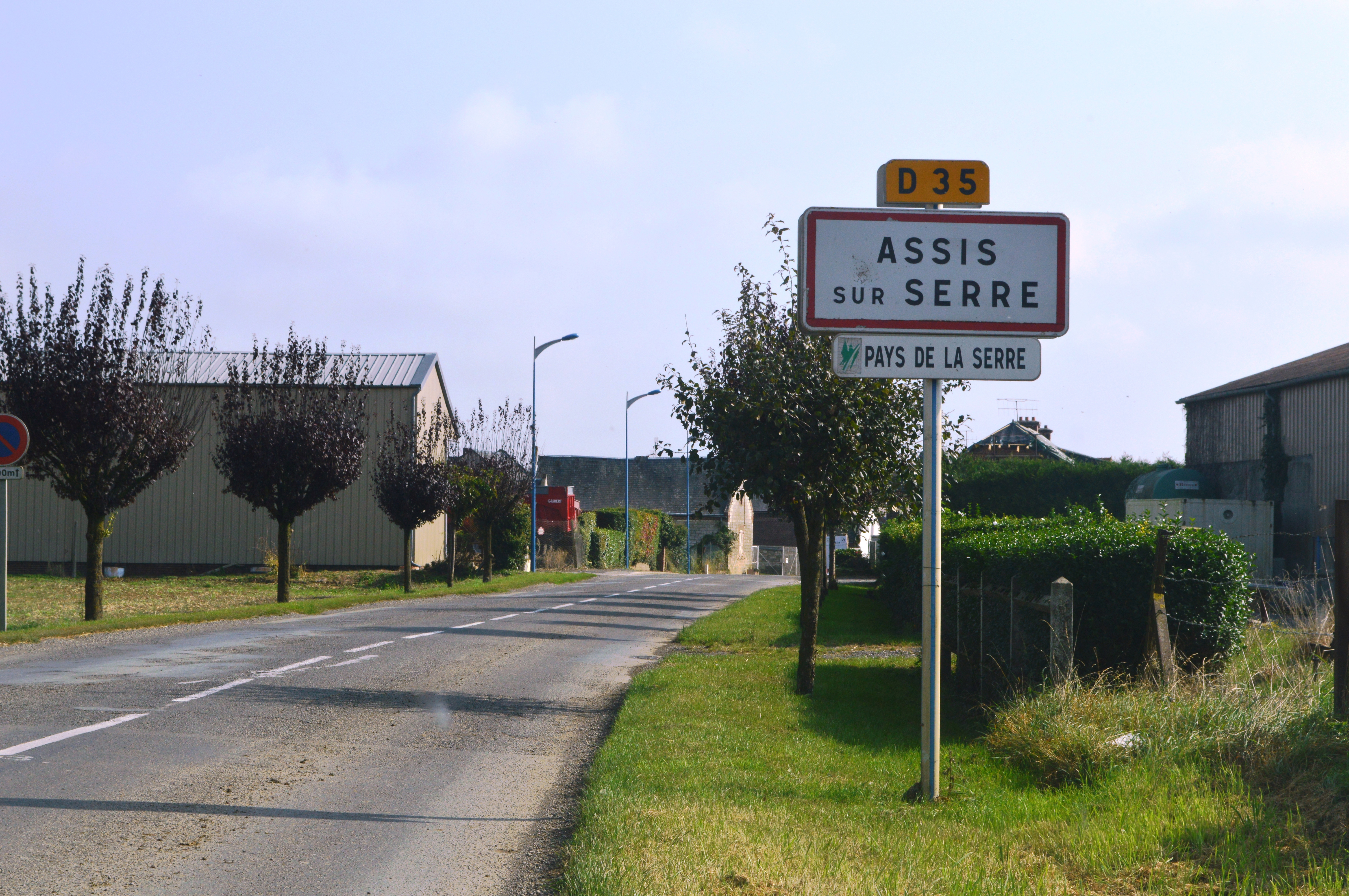 The entry to Assis-sur-Serre